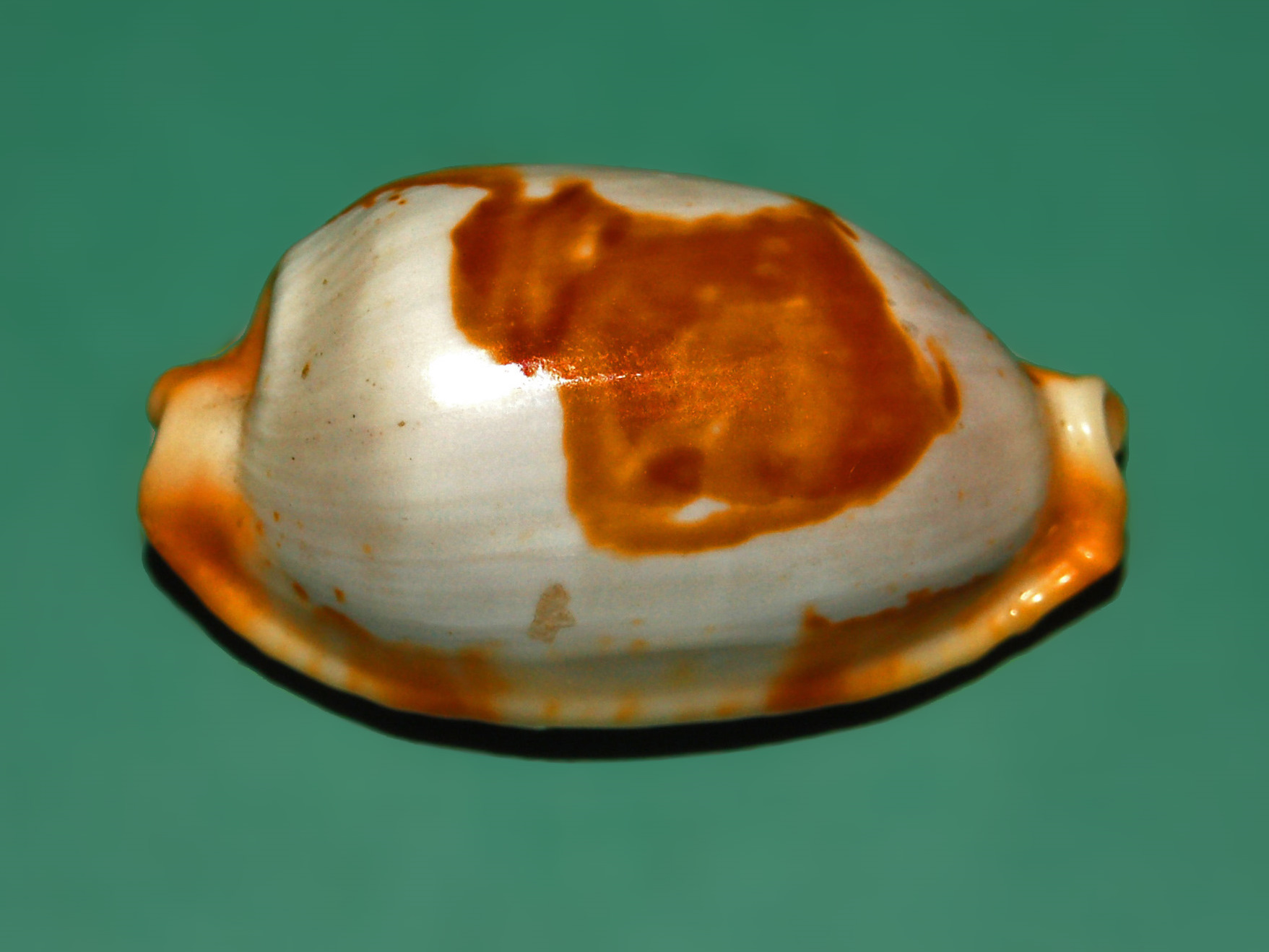 Bistolida stolida - Philippines